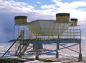 A radar wind profiler installation with RASS (the drums on the corners)